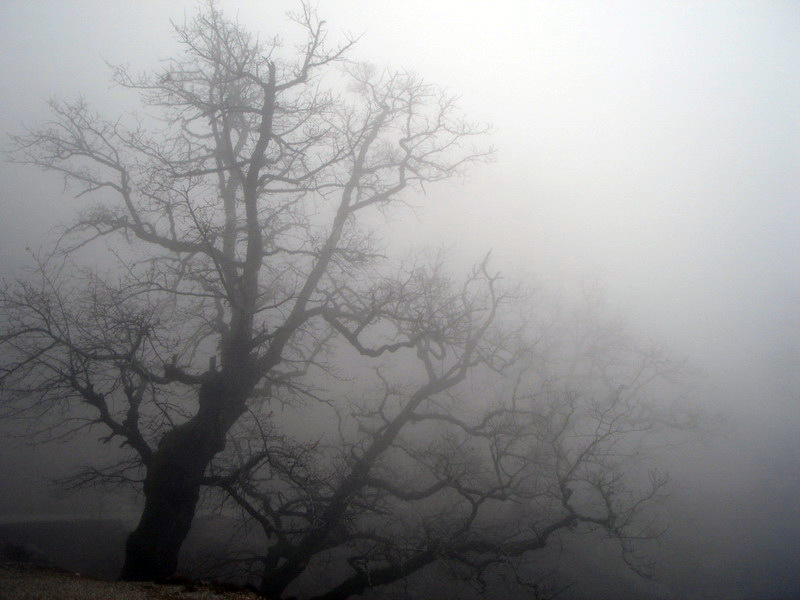 Orographic fog (Aetolia-Acarnania, Greece).